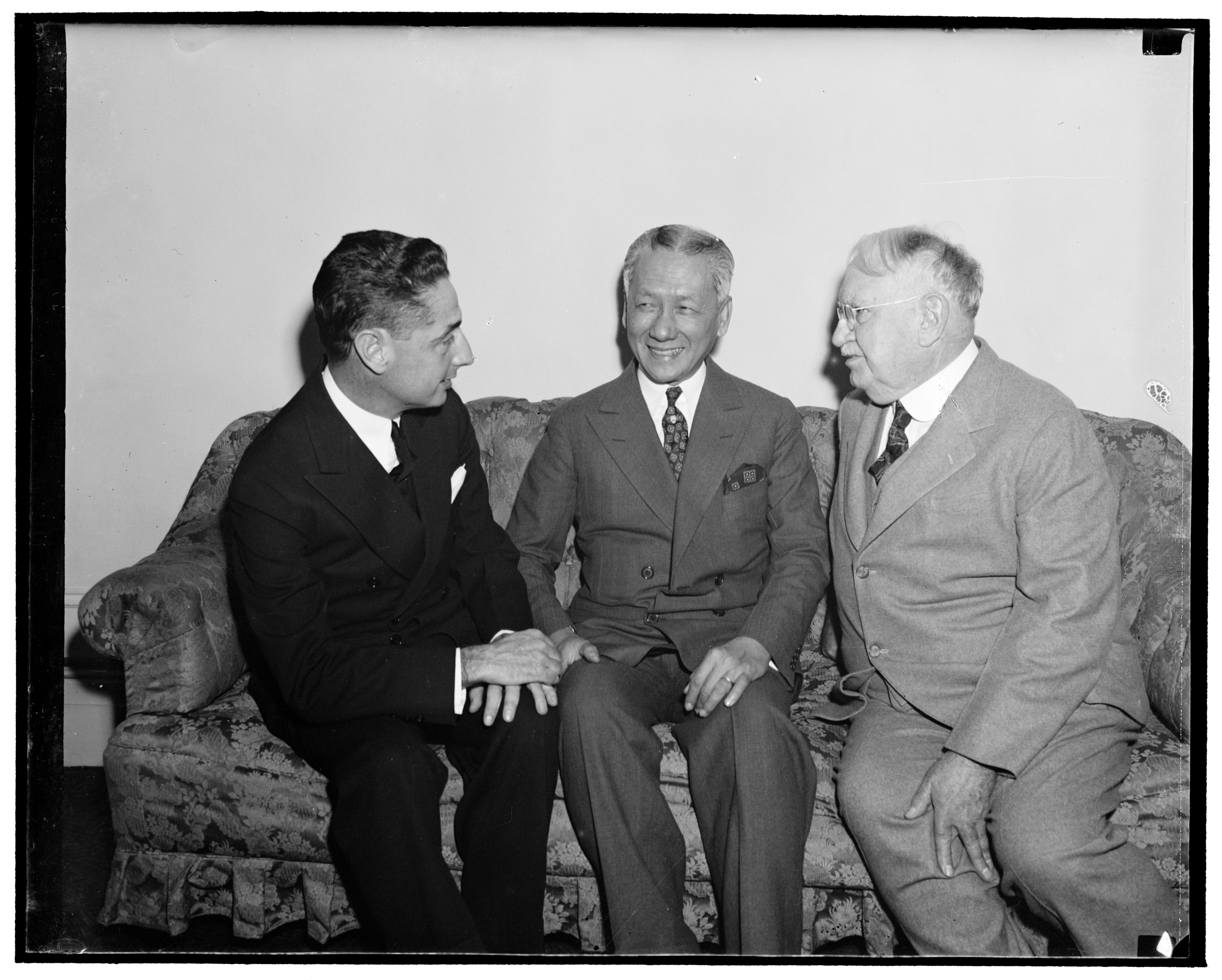 J.M. Elizalde, Sergio Osmena, John William Haussermann. Haussermann: Republican. Delegate to Republican National Convention from Philippine Islands, 1932; member of Republican National Committee from the Philippine Islands